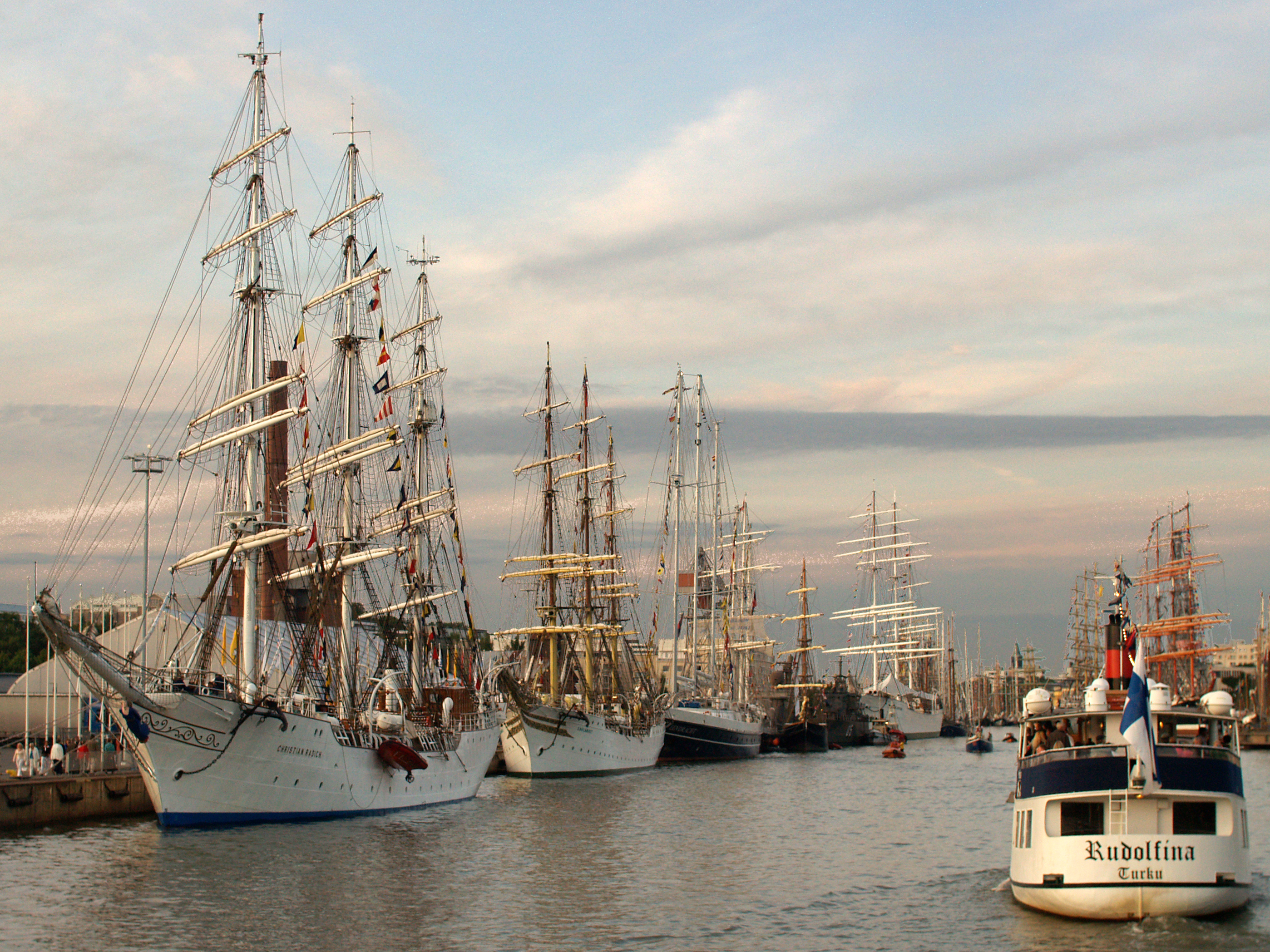 Tall Ship Races Turku 2009. The first three ships on the left are Christian Radich, Sørlandet and Eendraht, Suomen Joutsen a little further upstream. The masts of Sedov are seen on the right, behind Rudolfina.